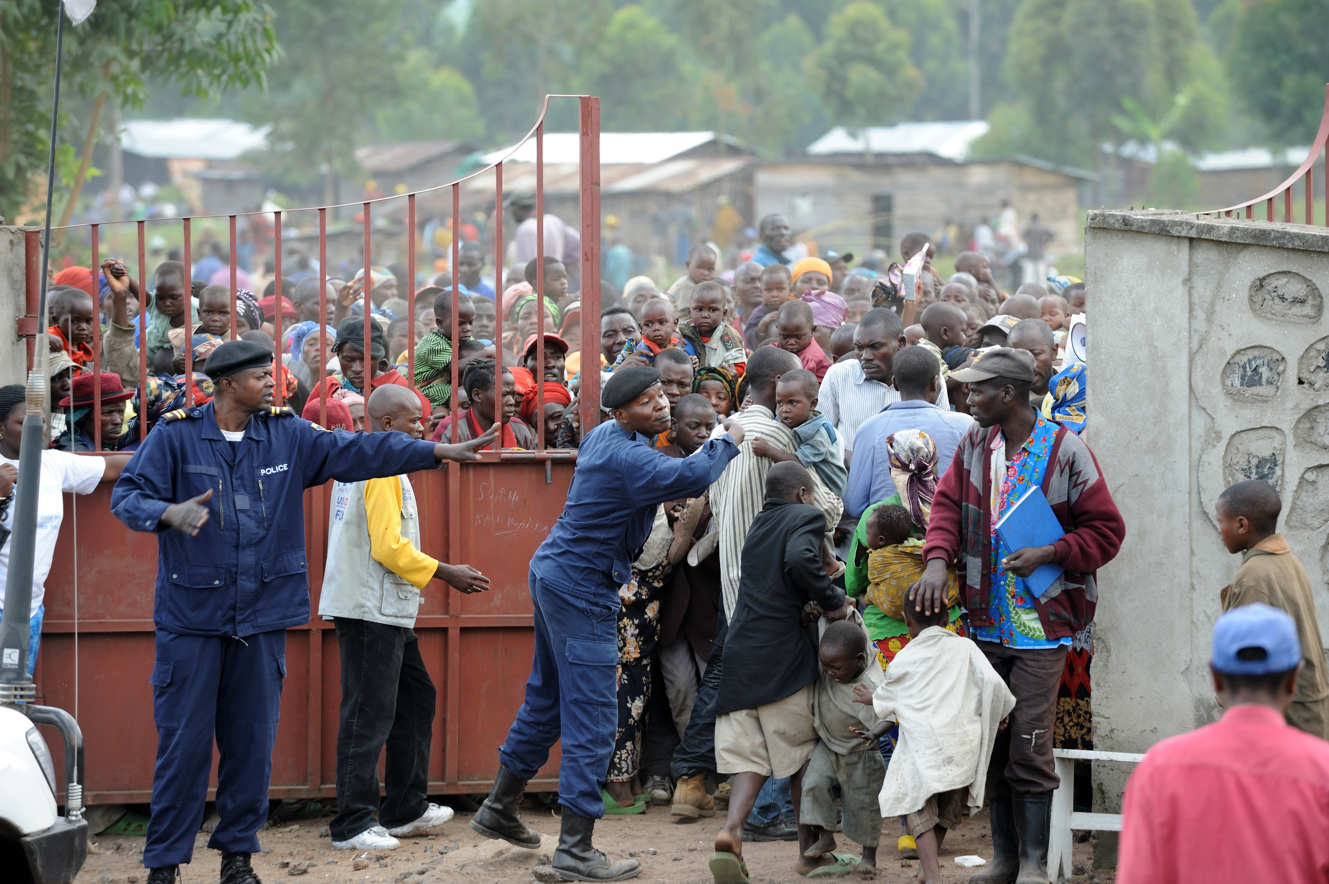 Distribution of food in Kibati-camp, Goma, Congo. UNICEF was amongst the first to get of Goma and start distribution. The amount of people needing aid and the duration since they last got food made the distribution difficult. Unicef distributed high energy biscuits and medical supplies for the centre which had been looted by government soldiers.